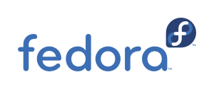 The logo of the Fedora project